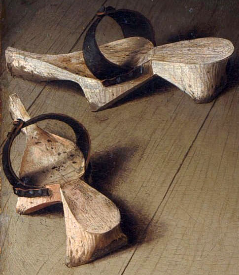 Crop of the painting The Arnolfini Portrait Artist Jan van Eyck (between circa 1390 and circa -1441) Alternative namesJean van Eyck, Johannes van EyckDescription Southern Netherlandish painter and draughtsman Date of birth/deathcirca 1390before 9 June 1441Location of birth/deathMaaseikBrugesWork locationThe Hague (1422), Bruges (1425), Lille (1425–1428), Bruges (1431–1441)Authority controlVIAF: 54156267 | LCCN: n50048855 | PND: 118531557 | WorldCat | WP-Person Title